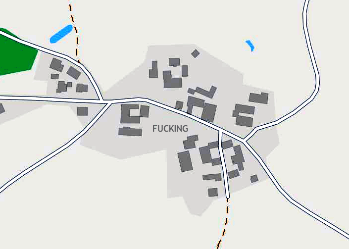 Map of Fucking, Austria